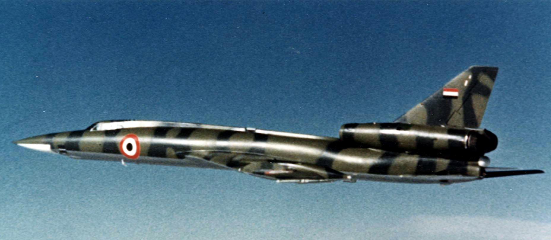 Tupolev Tu-22 "Blinder" in 1977.